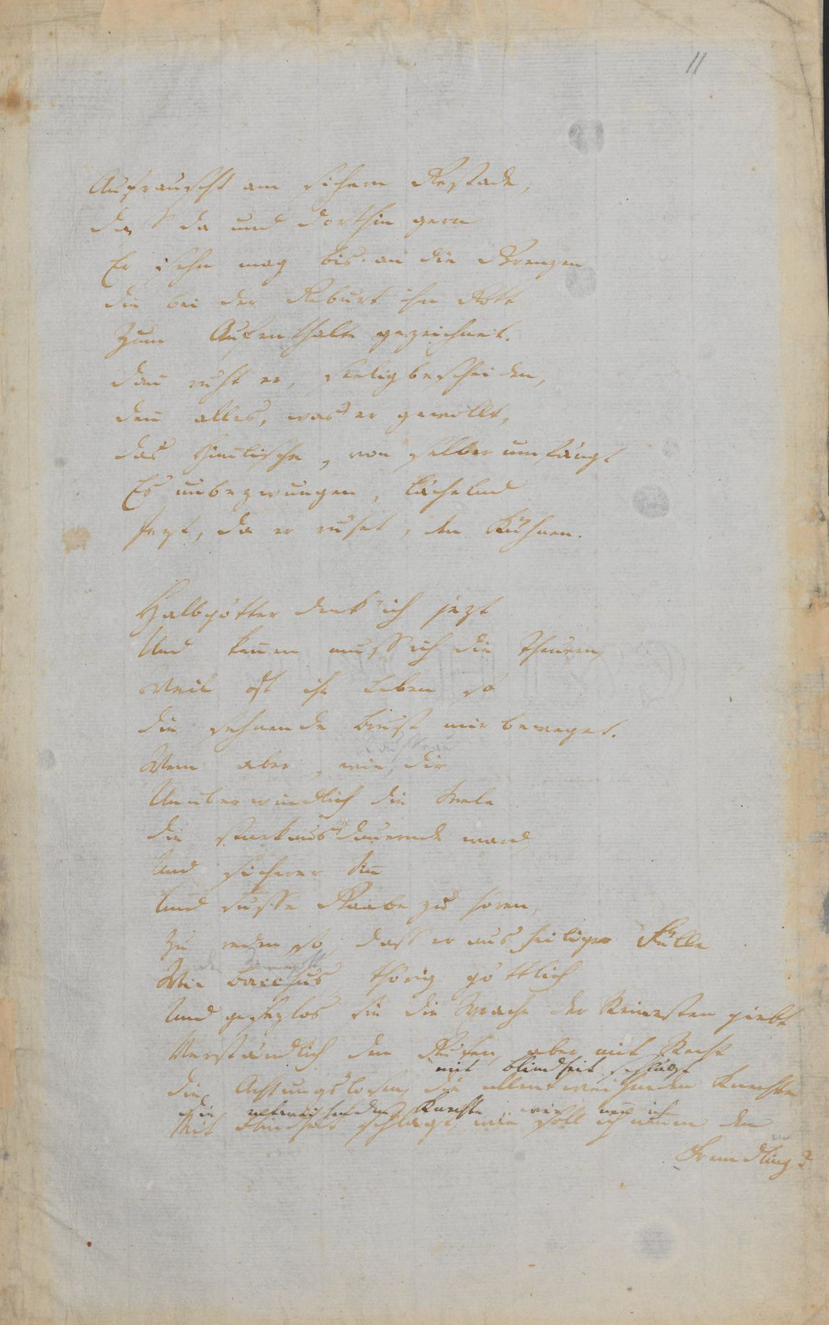 Manuscript of Friedrich Hölderlins poem "Der Rhein", Württembergische Landesbibliothek, page 7